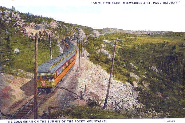 Postcard of The Columbian in the Rocky Mountains.